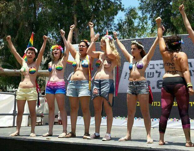 Femen Israel bursts onto the stage at Tel Aviv Pride 2014, to protest homonormative community priorities that leave already oppressed groups such as bisexuals, transgenders, and other gender non-conforming identities out of the loop.